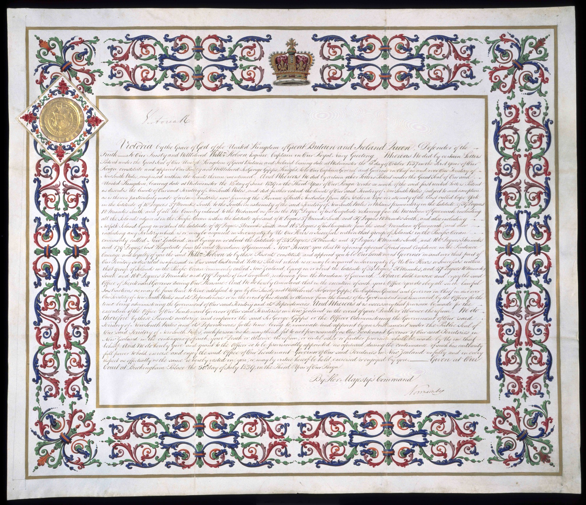 The document that appointed William Hobson as Lieutenant Governor of New Zealand. Archives reference: IA9 2/3 1.